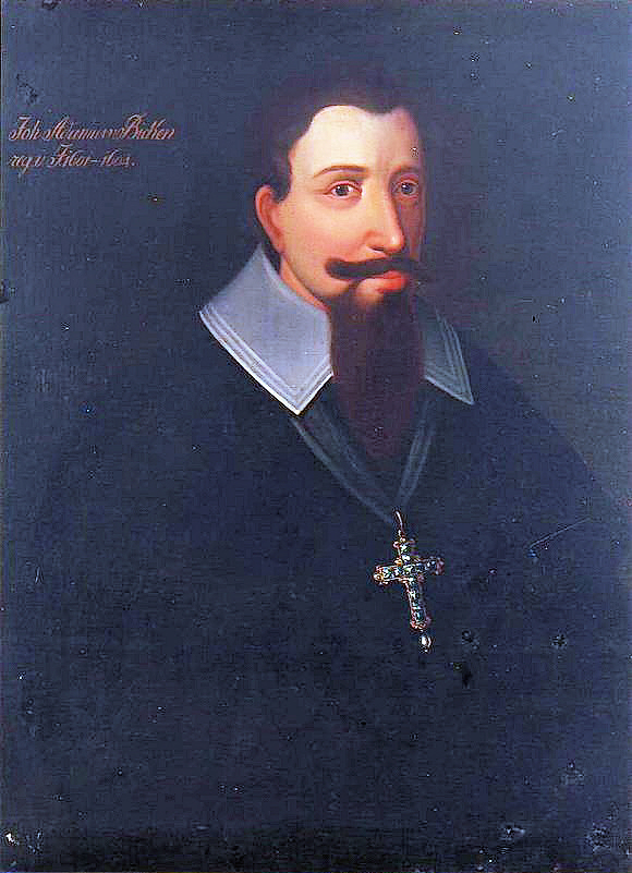 Johann Adam von Bicken